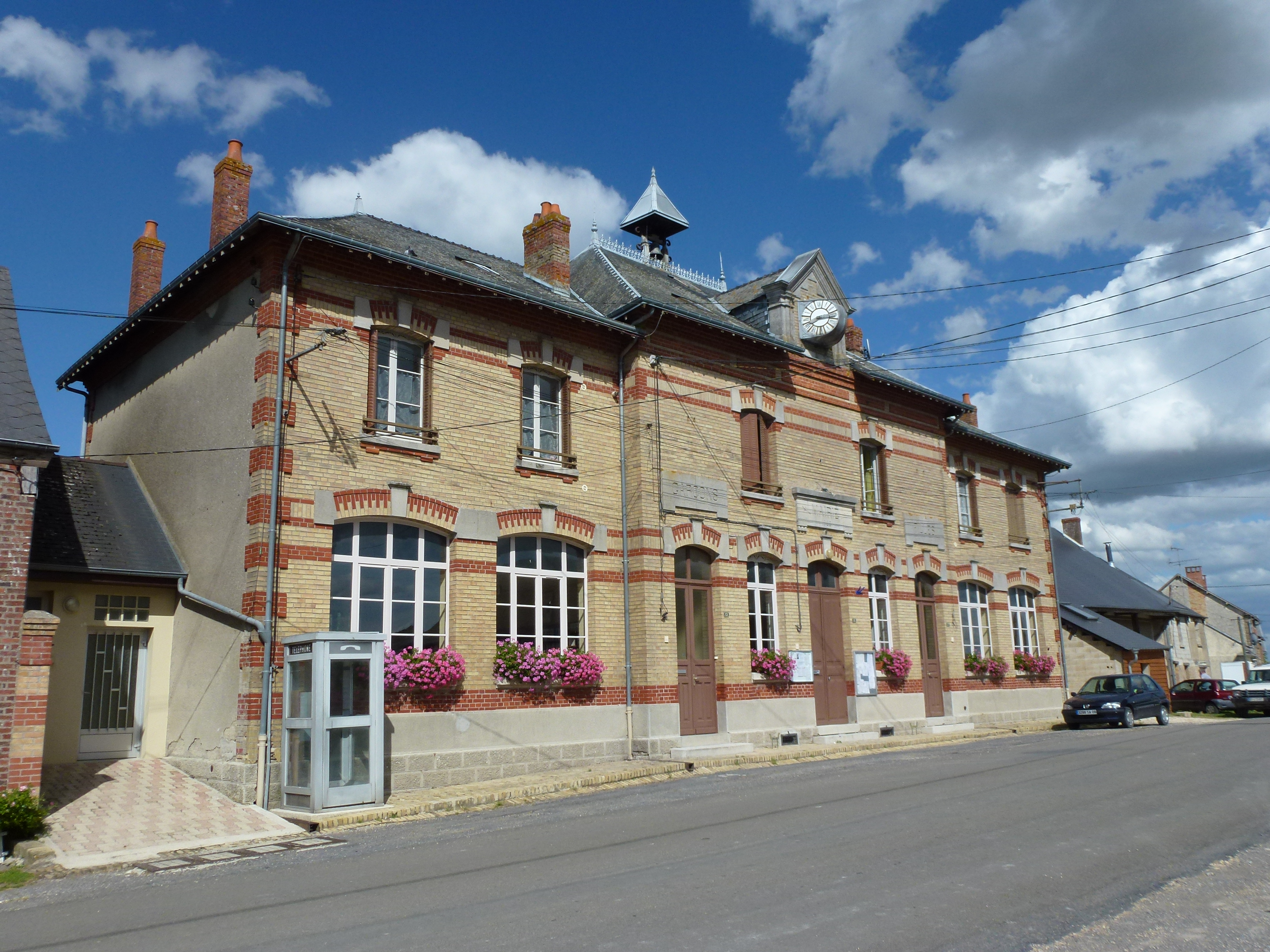 Séry (Ardennes) mairie-école